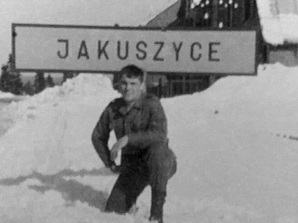 WOP post in Jakuszyce